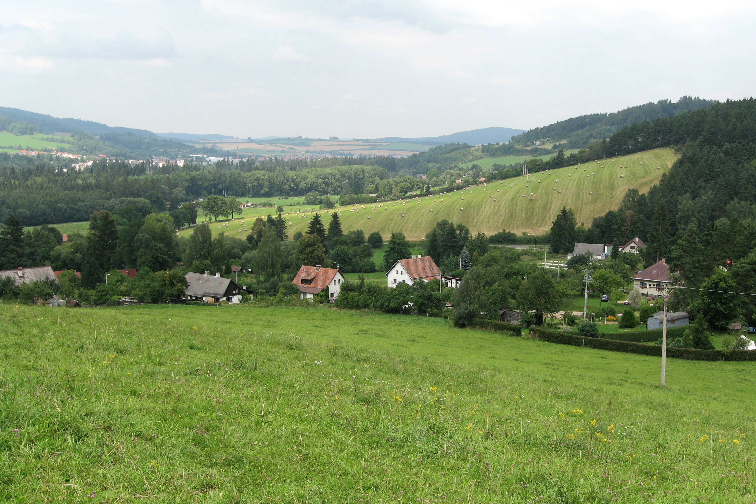 Dlouhá Ves - part of Sušice in Klatovy district, Czech Republic.